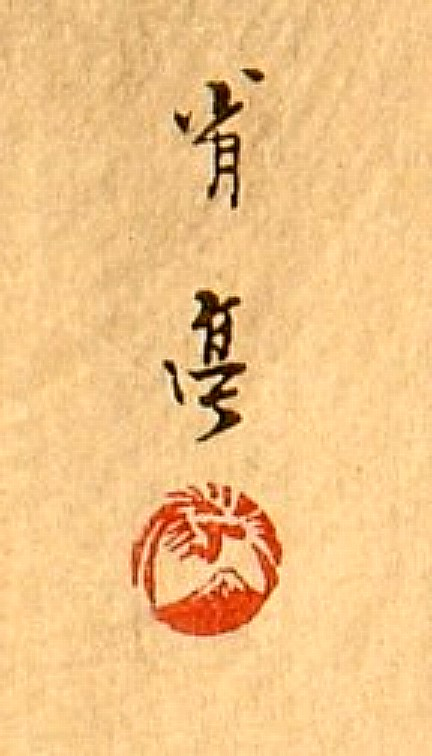 Signature and seal mark showing crane over Mt Fuji